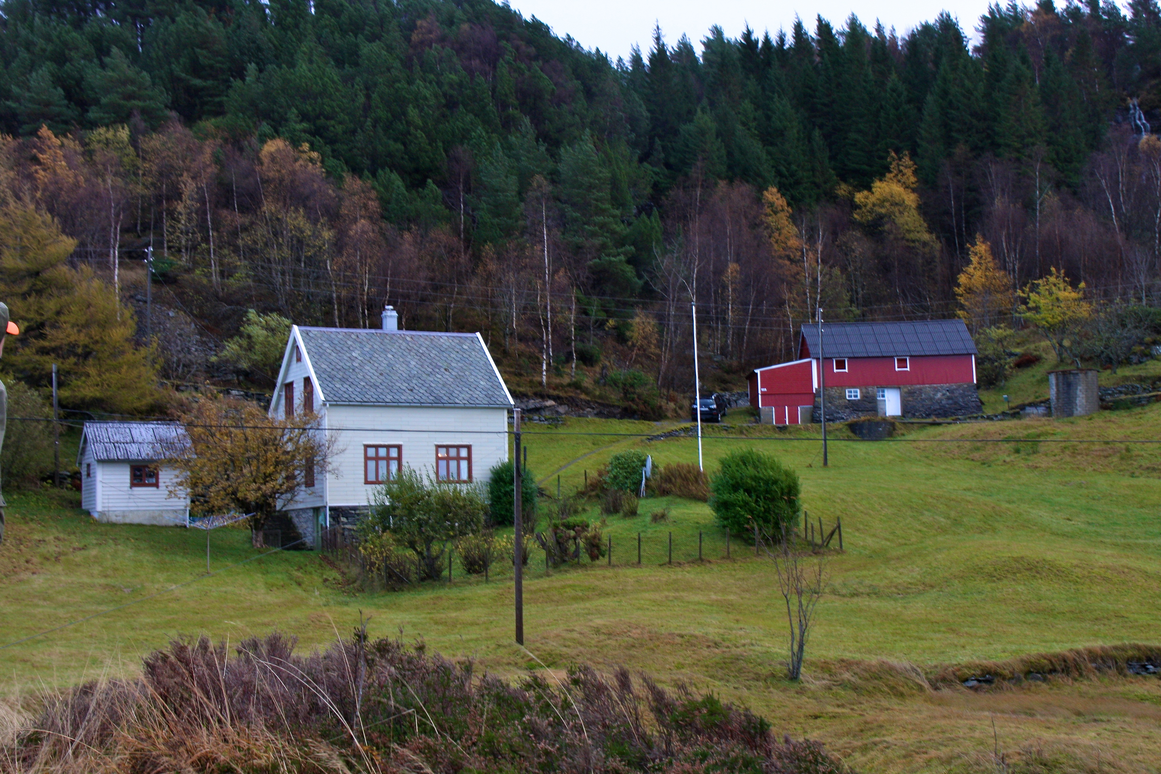 Rise (Gulen) in Gulen municipality, Norway.